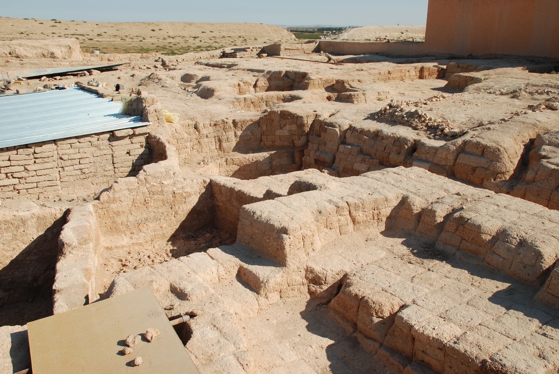 Qatna, Syria. Excavation SW of kings palace